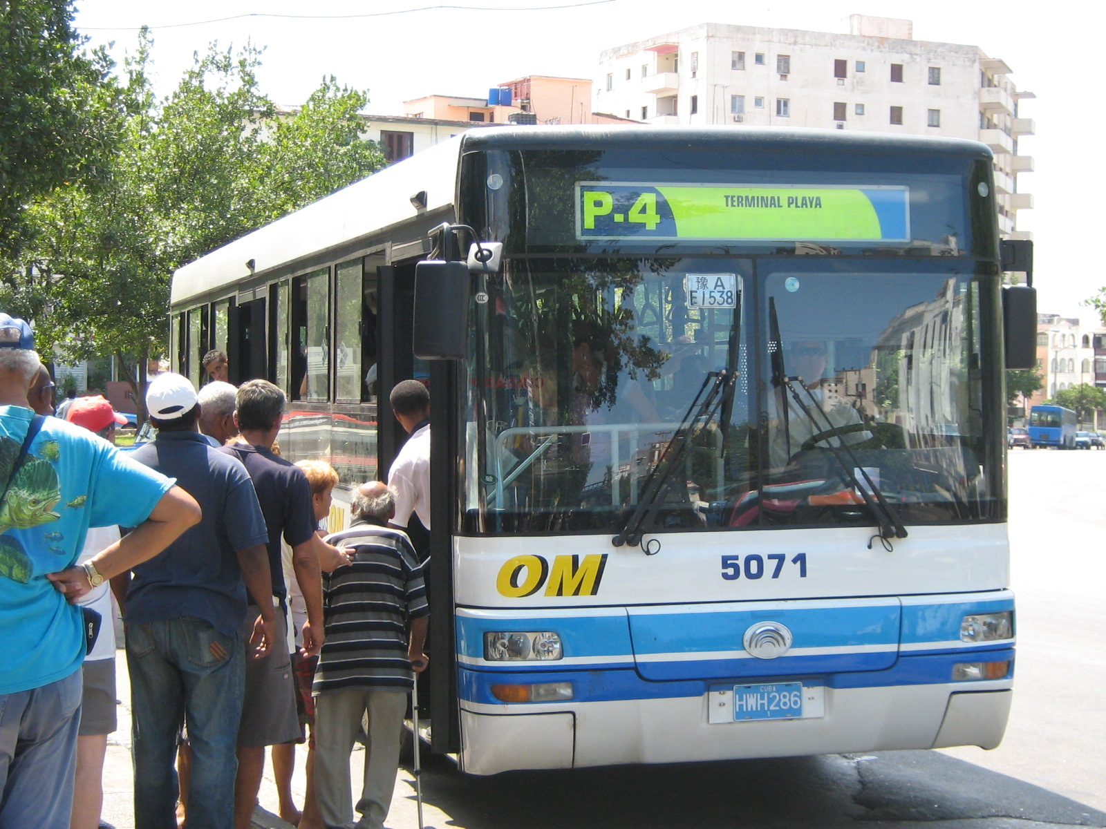 Yutong bus (HWH 286; #5071) in Havana, Cuba.